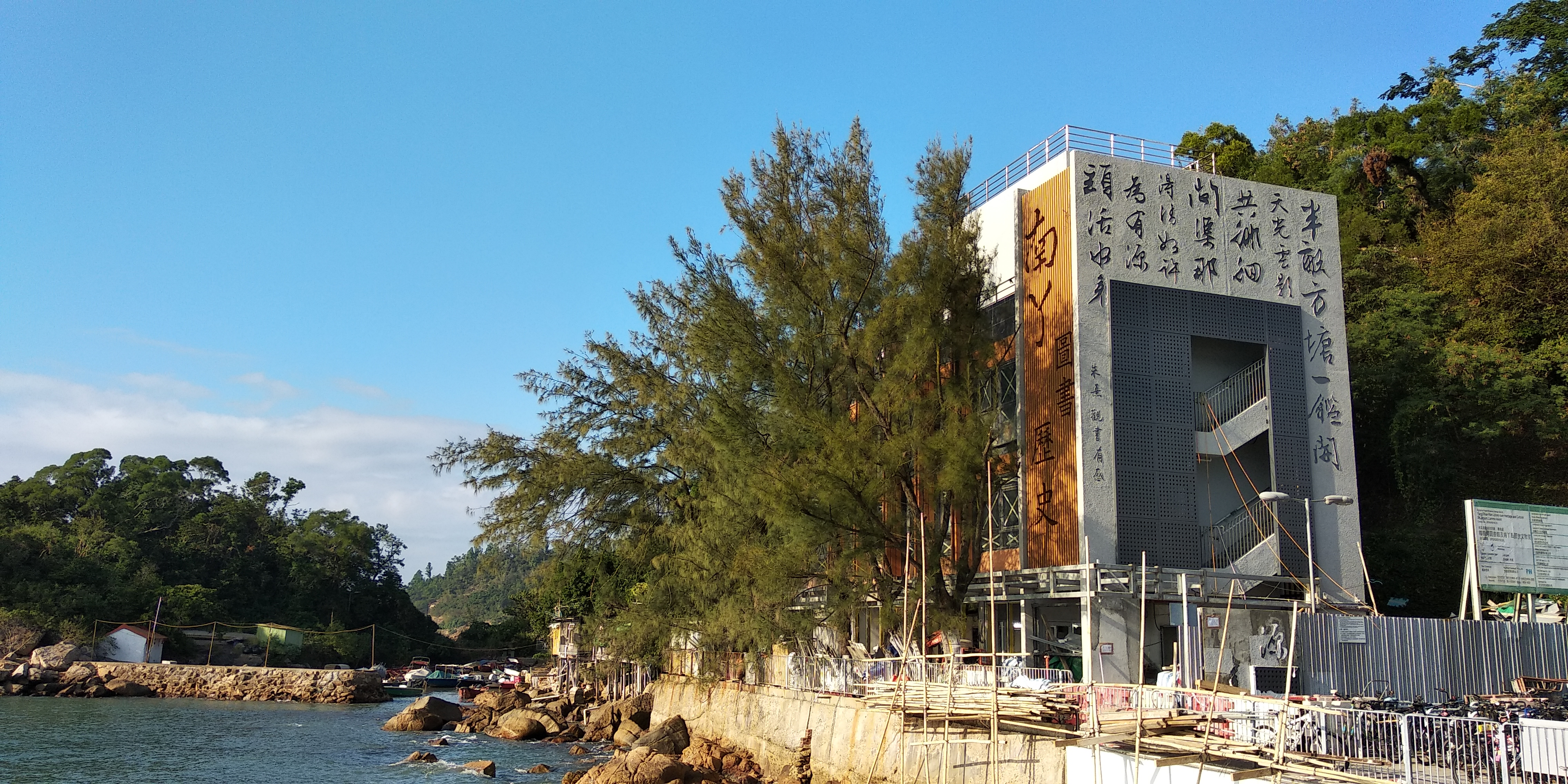 Yung Shue Wan Library cum Heritage and Cultural Showroom, Lamma Island.